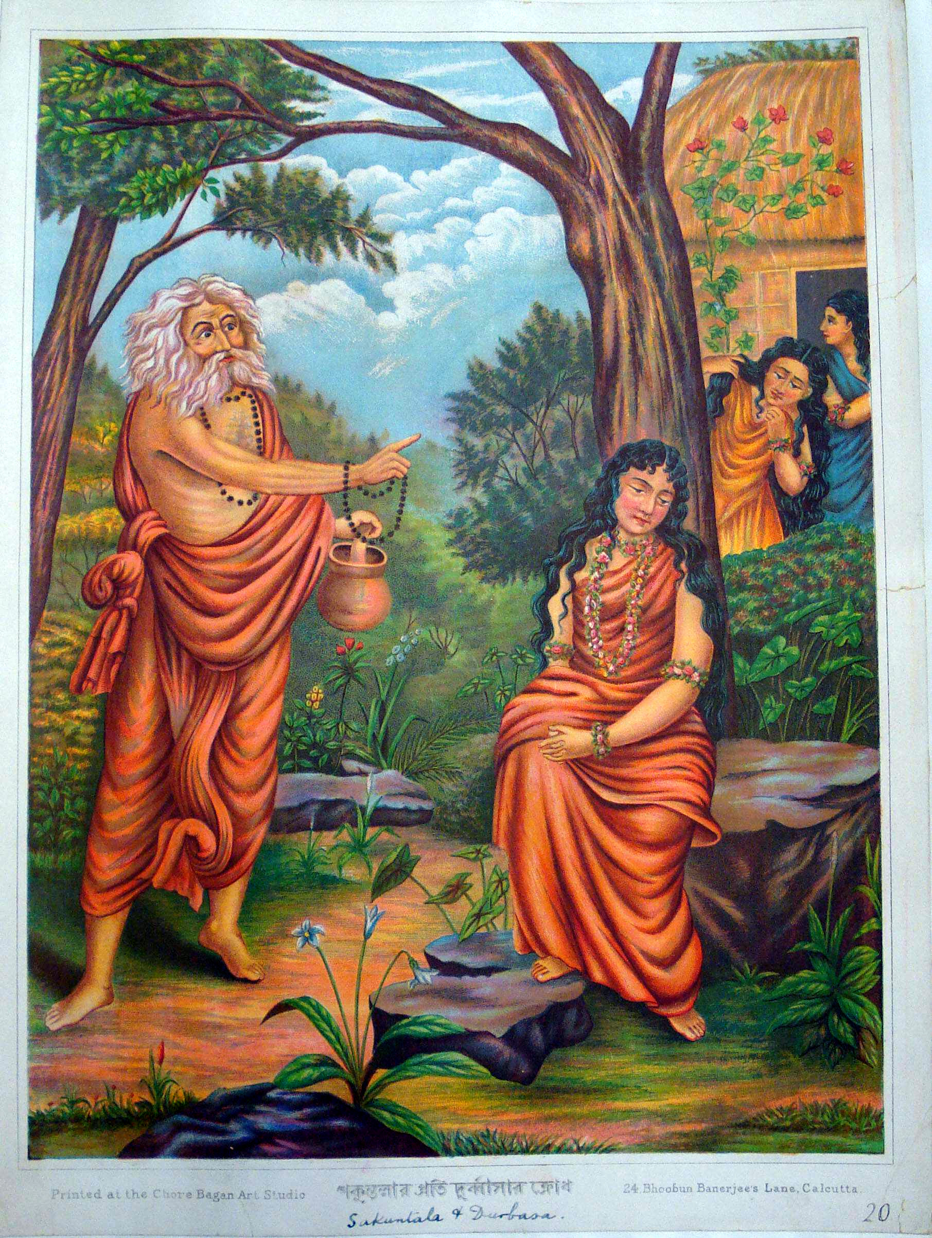 Album of popular prints mounted on cloth pages. Colour lithograph, lettered, inscribed and numbered 20. The sage Durvasa chastises Sakuntala for being lost in fantasy about her lover. This is an episode from the Mahabharata that was then expanded in a Sanskrit play by Kalidasa.